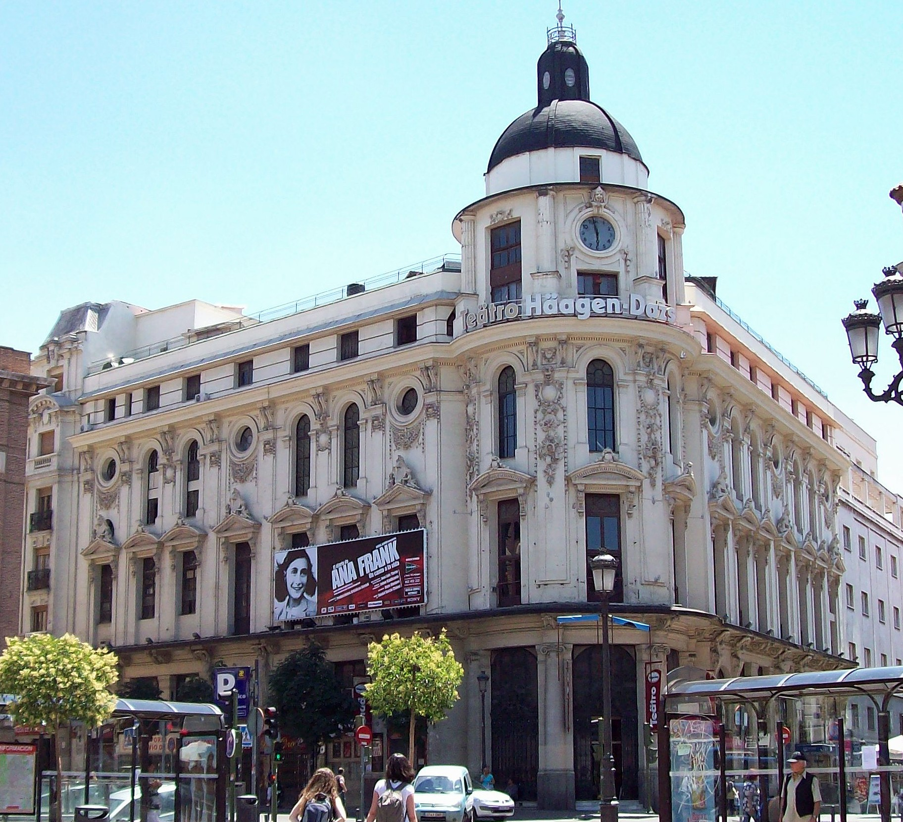 Teatro Calderón (theater) in Madrid (Spain), at the Plaza de Jacinto Benavente (square)